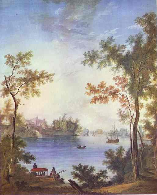 View on the Gatchina Palace from the Silver Lake (Gatchina)